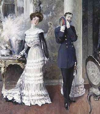 cropped version of Oscar Bluhm: Ermüdende Konversation, 41 x 31 cm